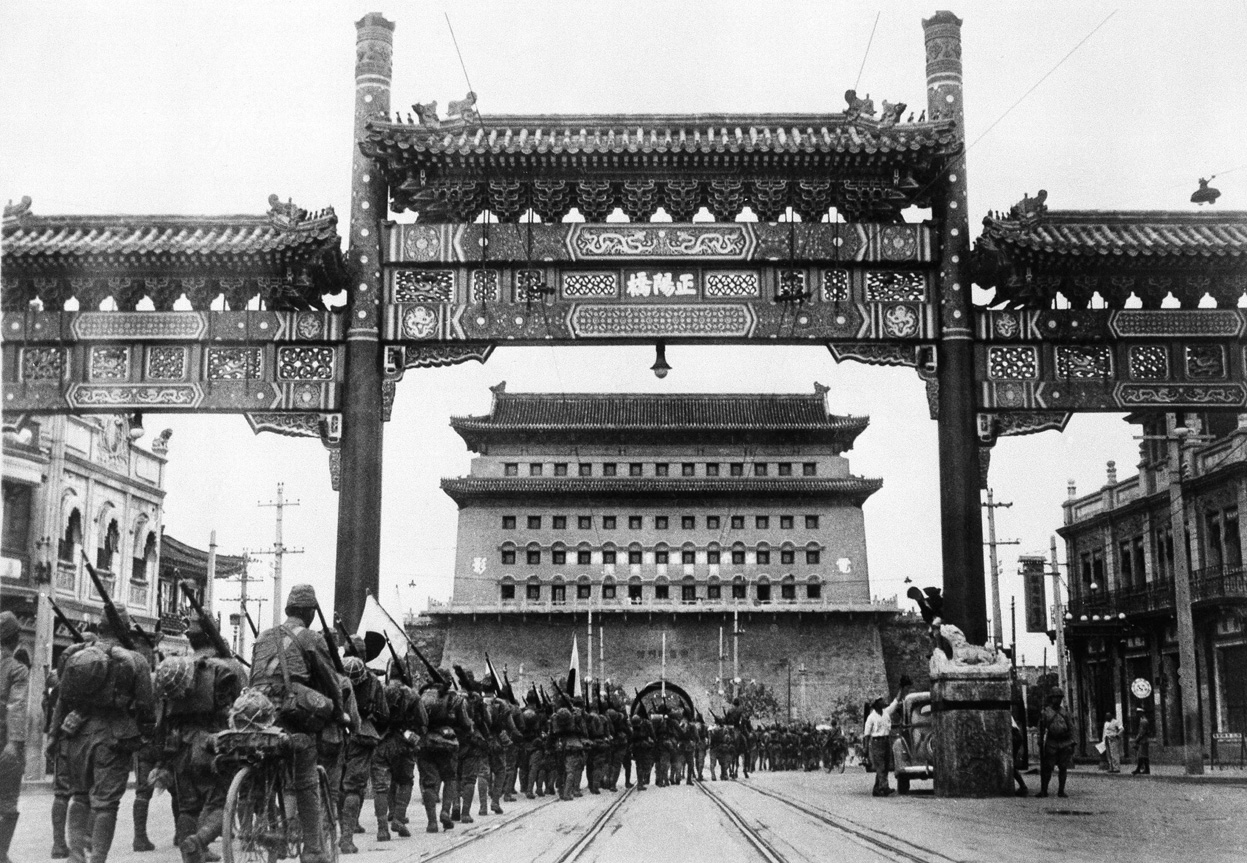 First pictures of the Japanese occupation of Peiping (Beijing) in China, on August 13, 1937. Under the banner of the rising sun, Japanese troops are shown passing from the Chinese City of Peiping into the Tartar City through Chen-men, the main gate leading onward to the palaces in the Forbidden City. Just a stone’s throw away is the American Embassy, where American residents of Peiping flocked when Sino-Japanese hostilities were at their worst. (AP Photo)